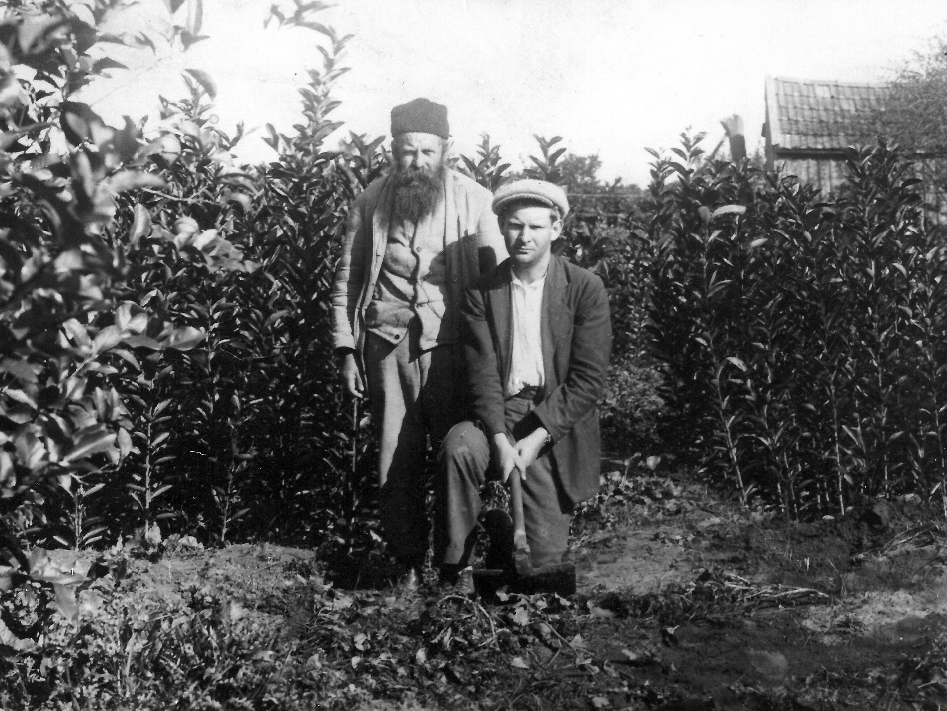 Mayor Shlomo Stampfer & son Binyamin in the Stampfer orange grove in petah Tikva in the 1930's